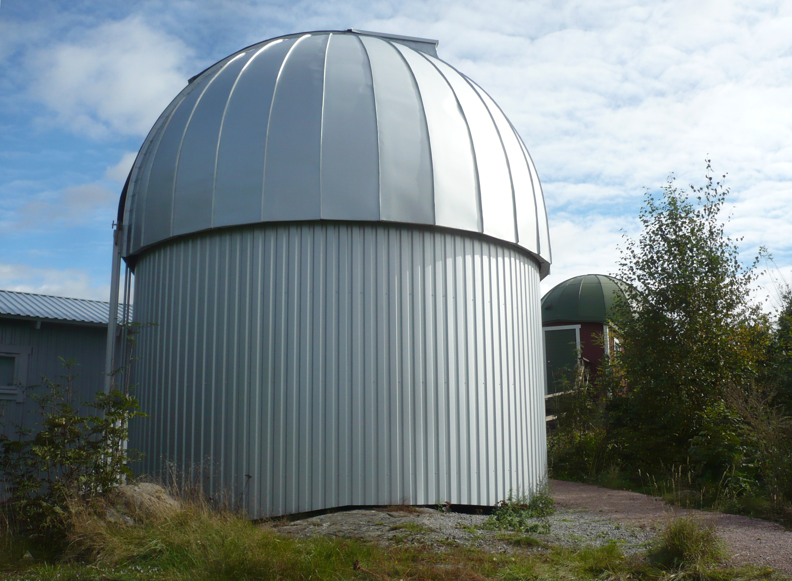 Akesta observatory, Vasteras Sweden